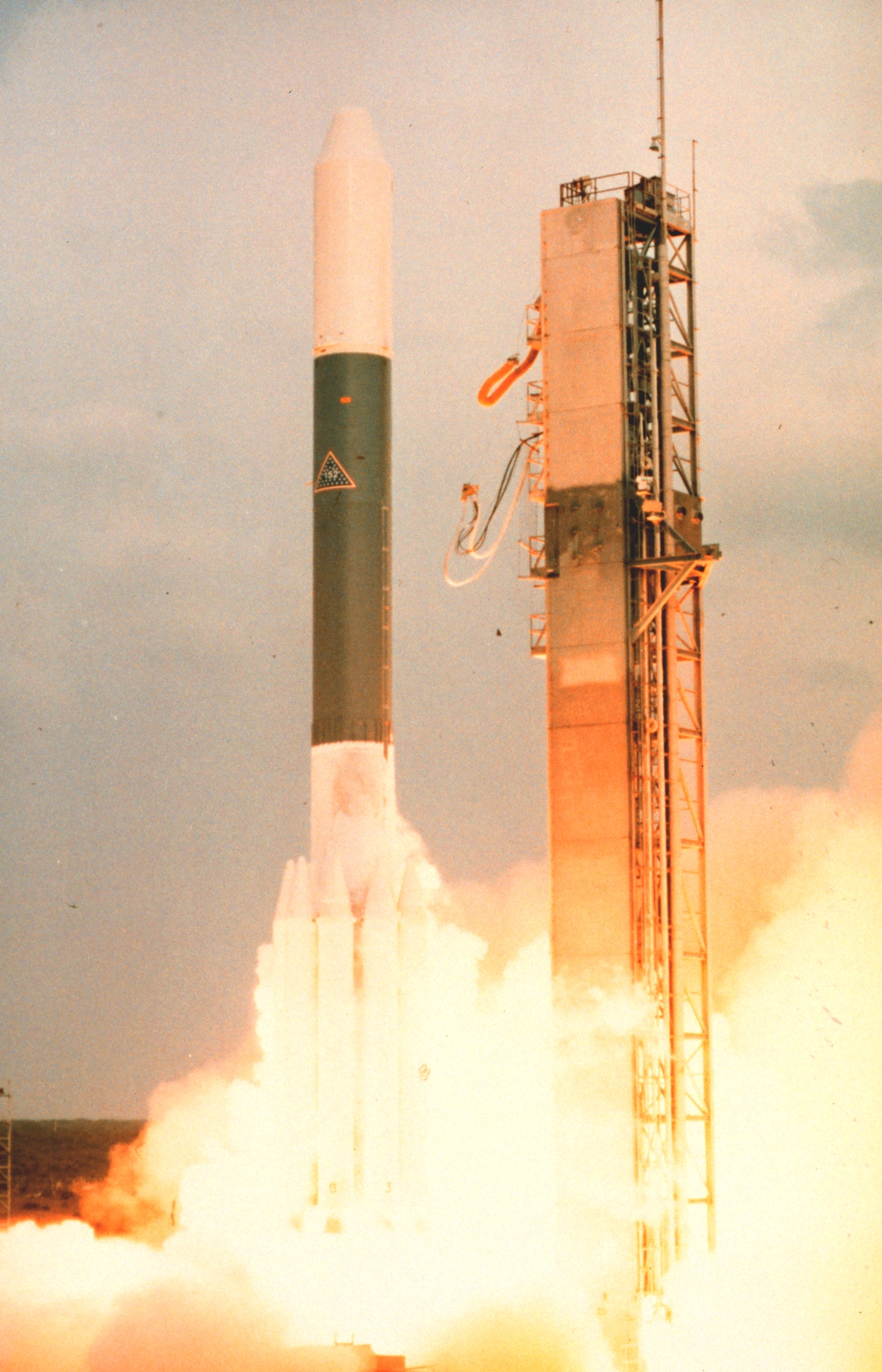 The launch of GOES-D aboard Delta Launch Vehicle 152. Upon attaining orbit and becoming operational was designated GOES 4.